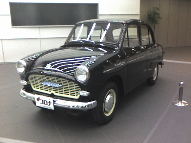 Toyopet Corona (later Toyota Corona), first model